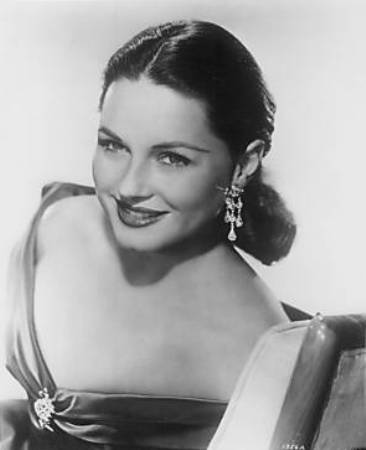 Publicity picture of Sue Casey from 1956